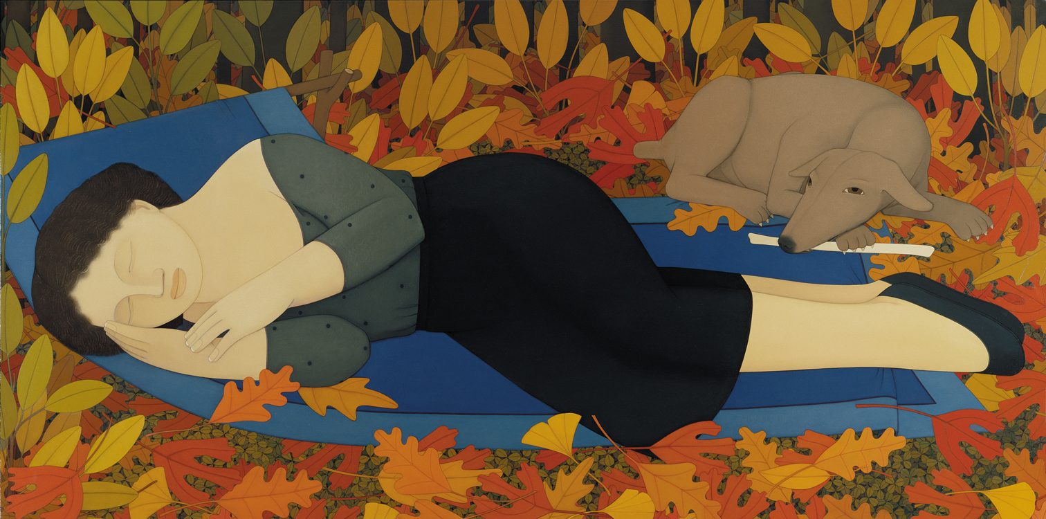 Photograph of an oil painting by Andrew Stevovich, Woman with Autumn Leaves, 1994 36" x 72"